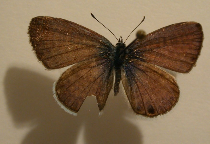 On 15 September, while collecting for the park's bio-inventory, I collected a small butterfly. In working on its identification I have determined it to be a Marine Blue, Leptotes marina. The underside is stripped and has two iridescent blue spots located near the outer angle of the hind wing. The Cassius Blue, Leptotes cassius, is similar but this specimen lacks the whiter appearance. The striping pattern distinguishes the Cassius and Marine Blues from all other Blues. I have been unable to relocate any additional butterflies of this type in the park. The butterfly is 2.5 cm (1 inch) from wing tip to wing tip. The butterfly was collected from the grassy bank next to the visitor center.